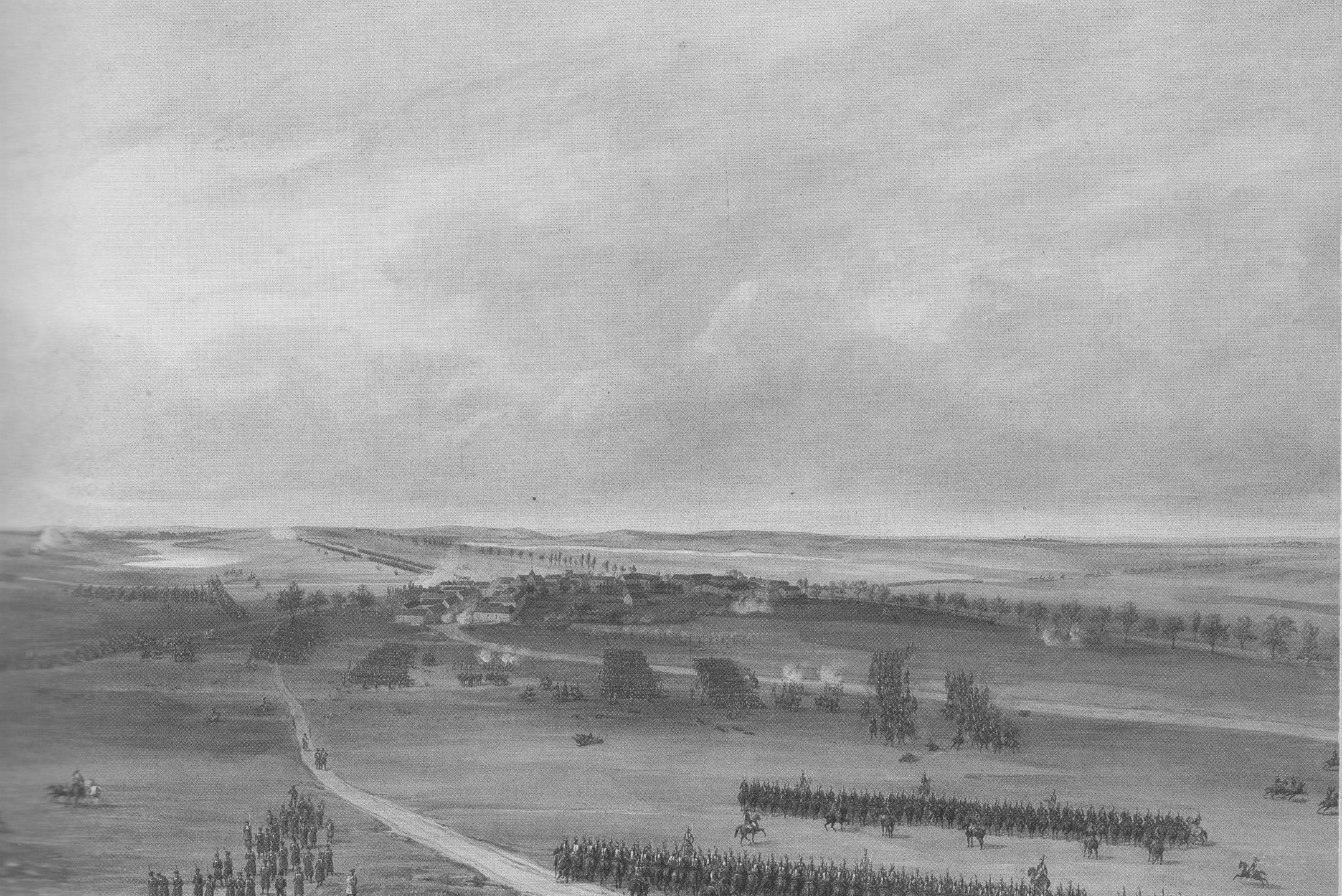 Battle of Champaubert in the evening of 10 February 1814. In the foreground, the French cuirassiers of General Doumerc. Soon they will charge the Russians and rout them. In the background, Marmont and Ney's infantry attack General Olsouviev's.